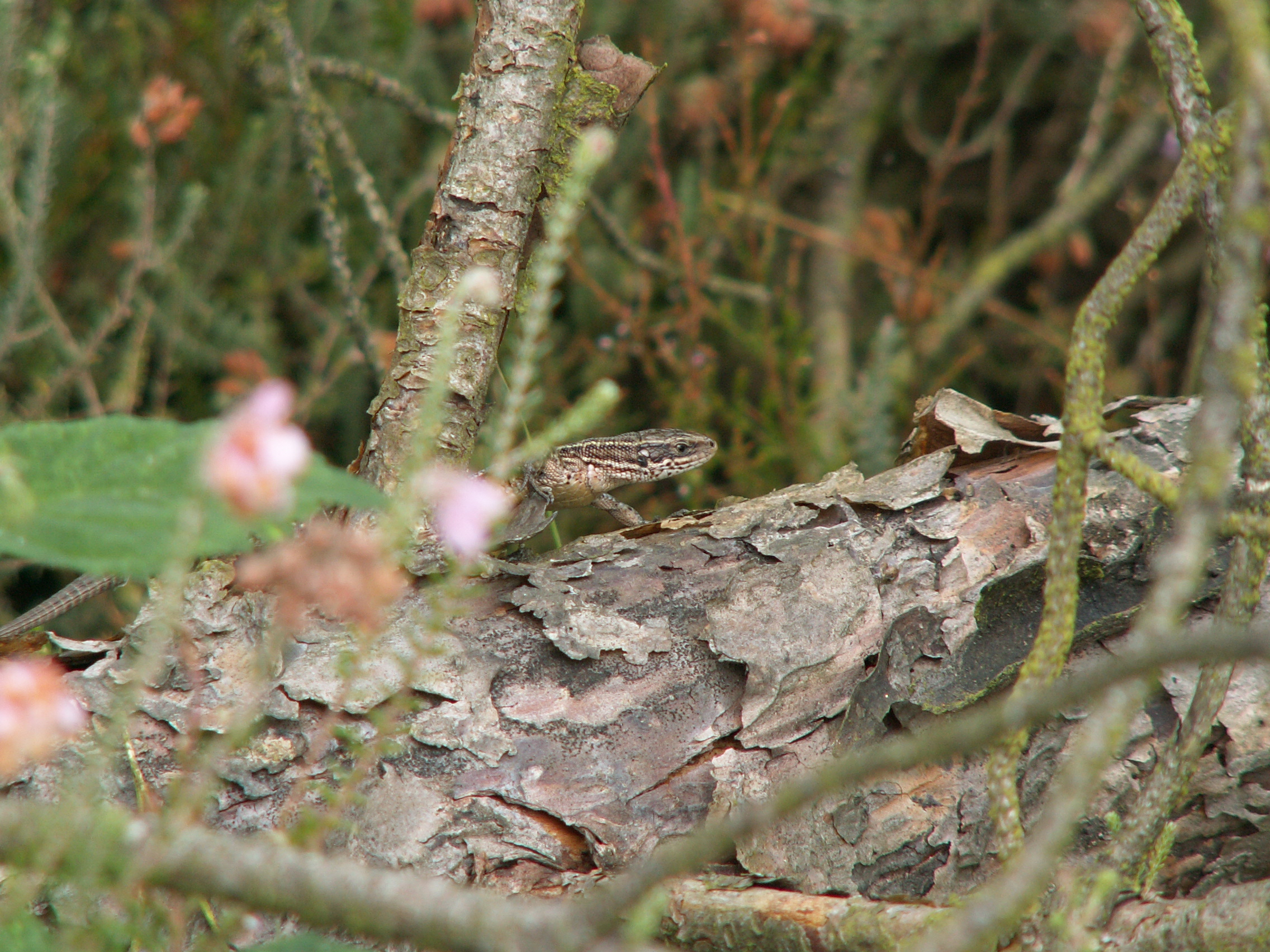 Zootoca vivipara in it's favoured habitat, Veluwe, the Netherlands